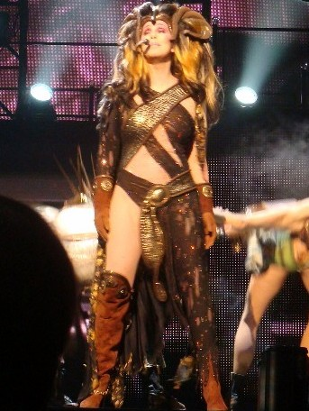 Cher February 2009